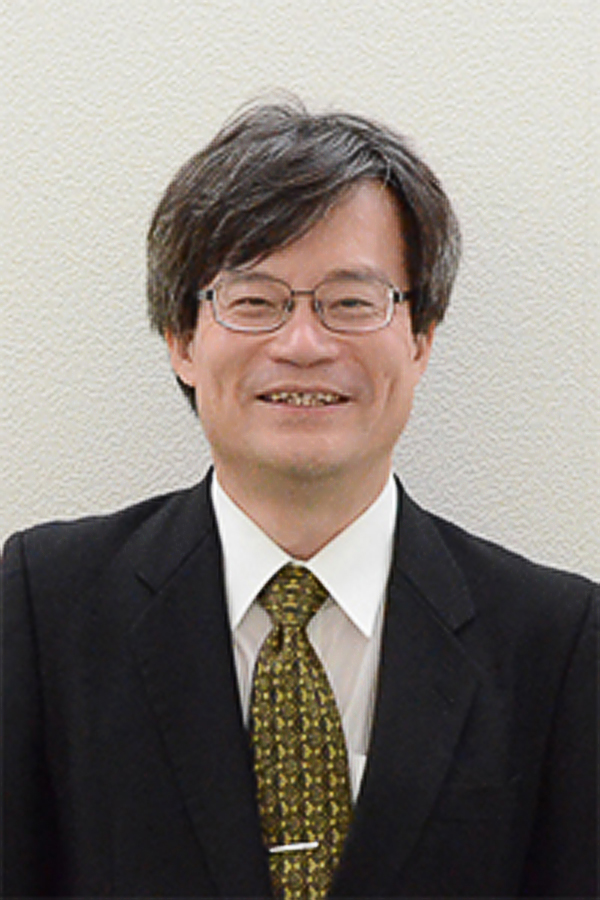 Hiroshi Amano, Director of Akasaki Research Center, Nagoya University, was given Nobel Prize in Physics on 2014.